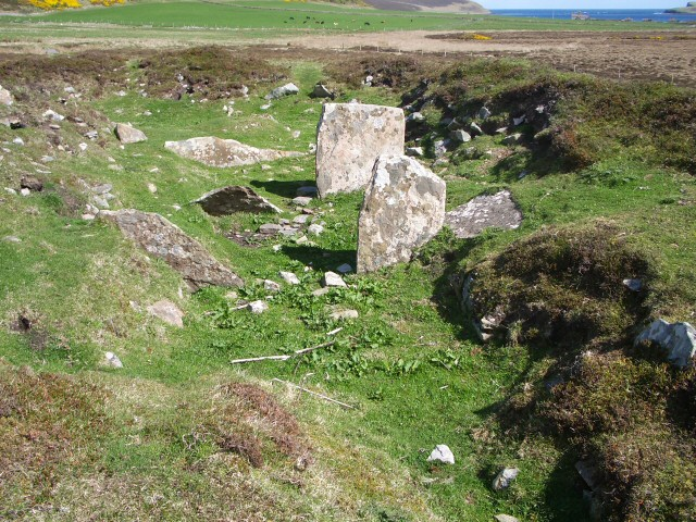 Braeside chambered tomb, Eday. This tomb lies on the waymarked walk from the Stone of Setter around Red Head. Its long narrow chamber is divided into three compartments by upright slabs.